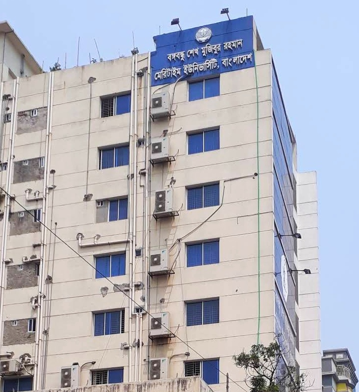 Photograph Of BSMRMU.